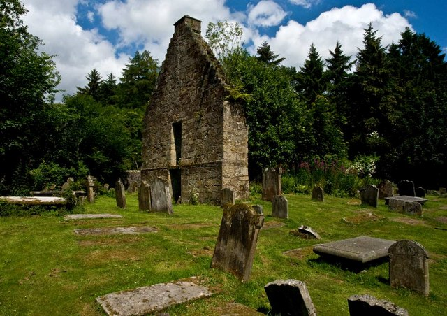 St Machan's Capel, Campsie Glen